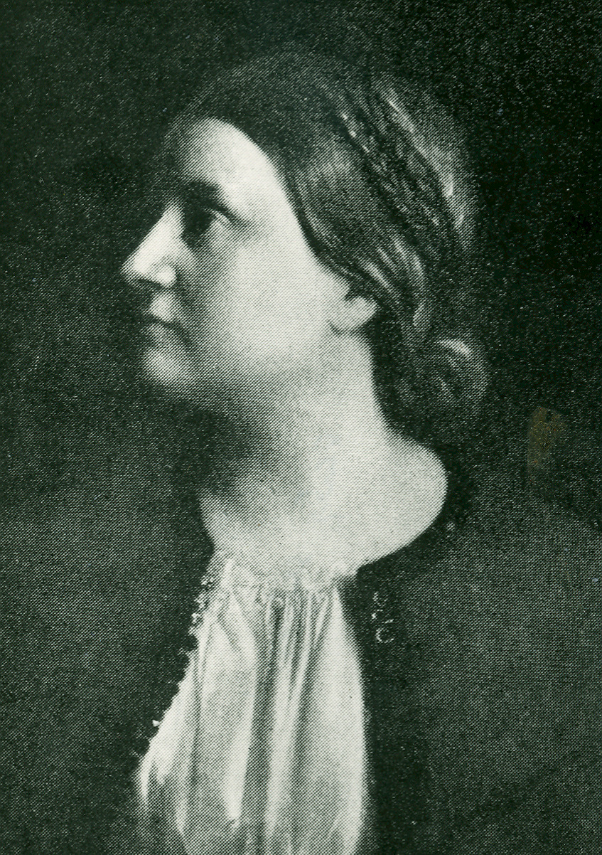 TWL-2003-638